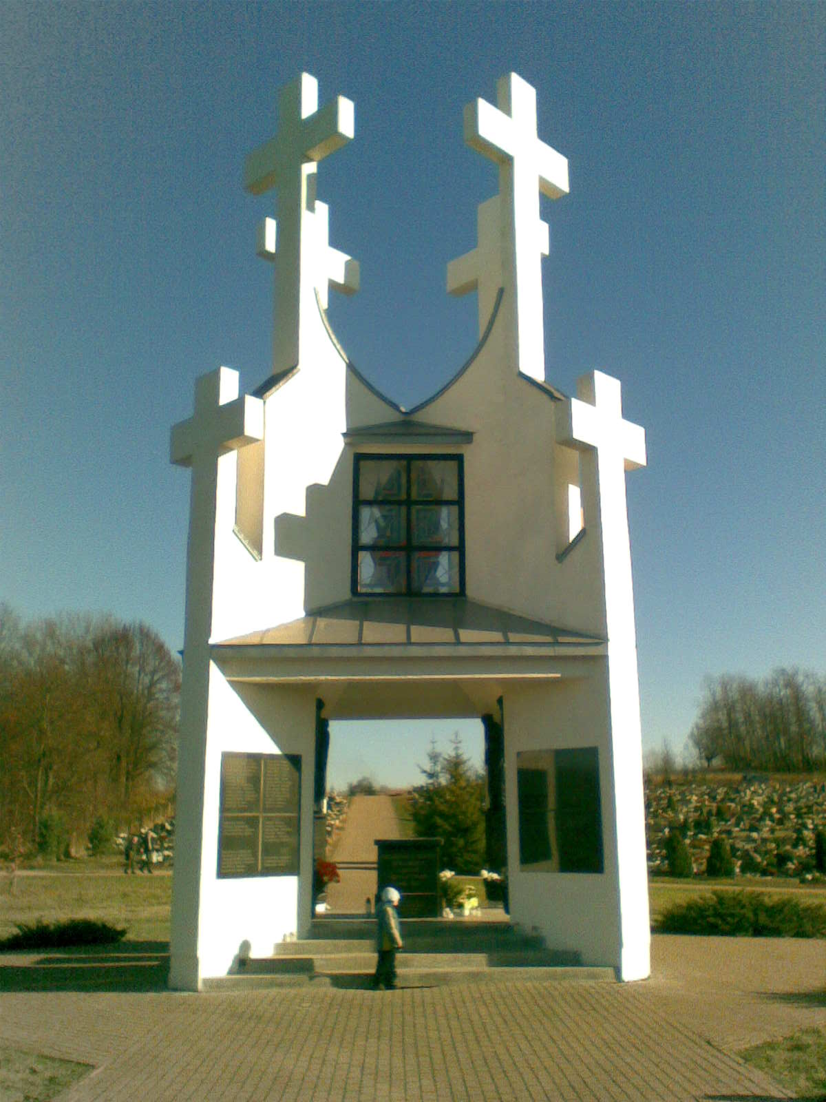 Partisan chapel at Kaišiadorys.